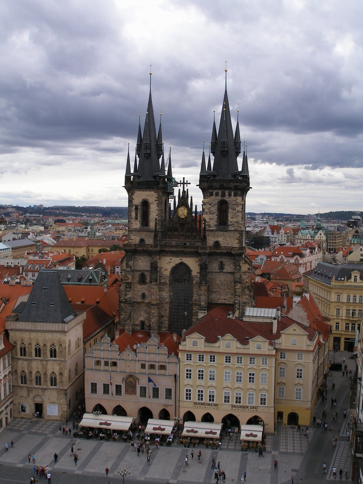 Týn Church, Prague, Bohemia